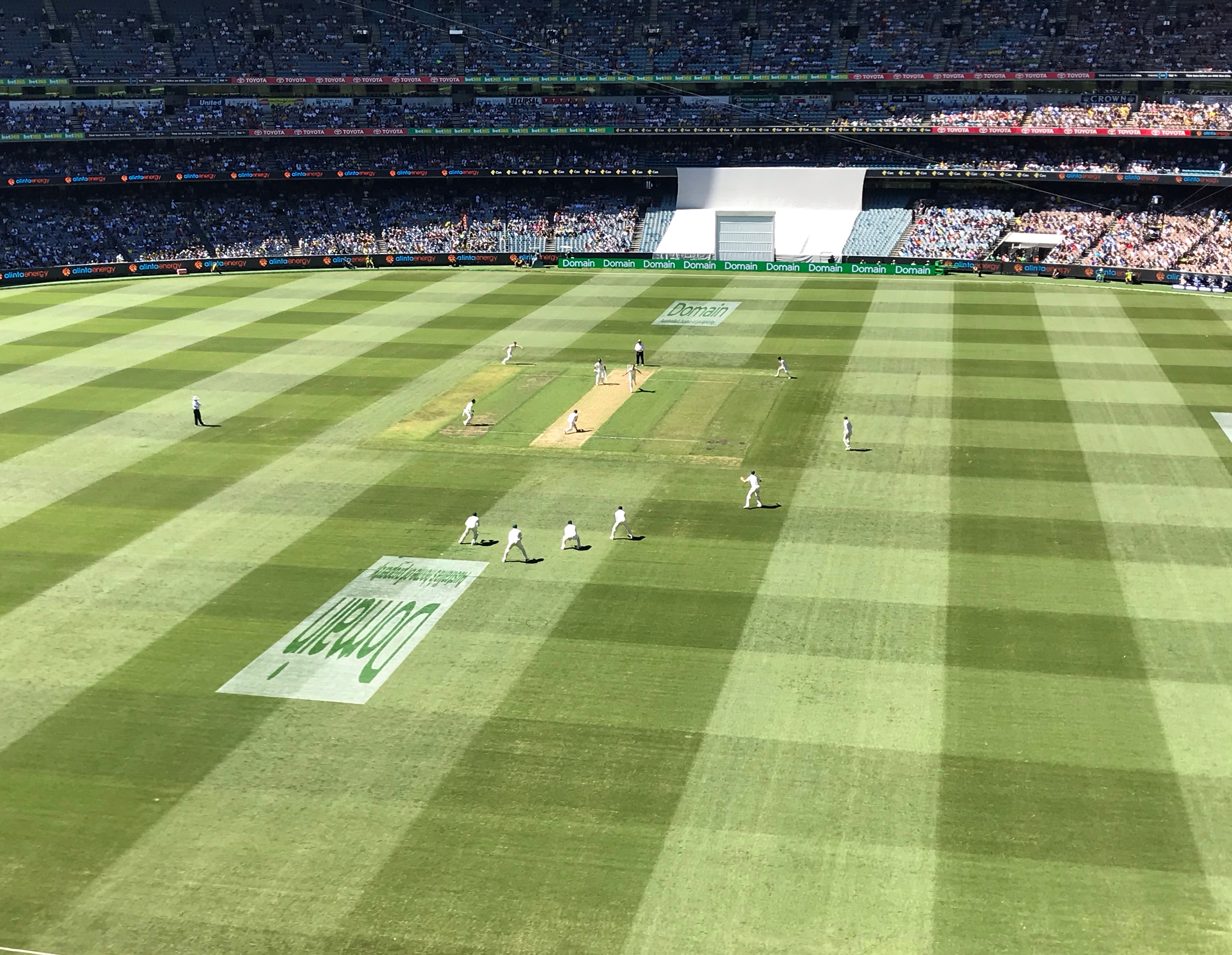 First day of the Third Test of the Indian cricket team in Australia in 2018–19 series at the Melbourne Cricket Ground